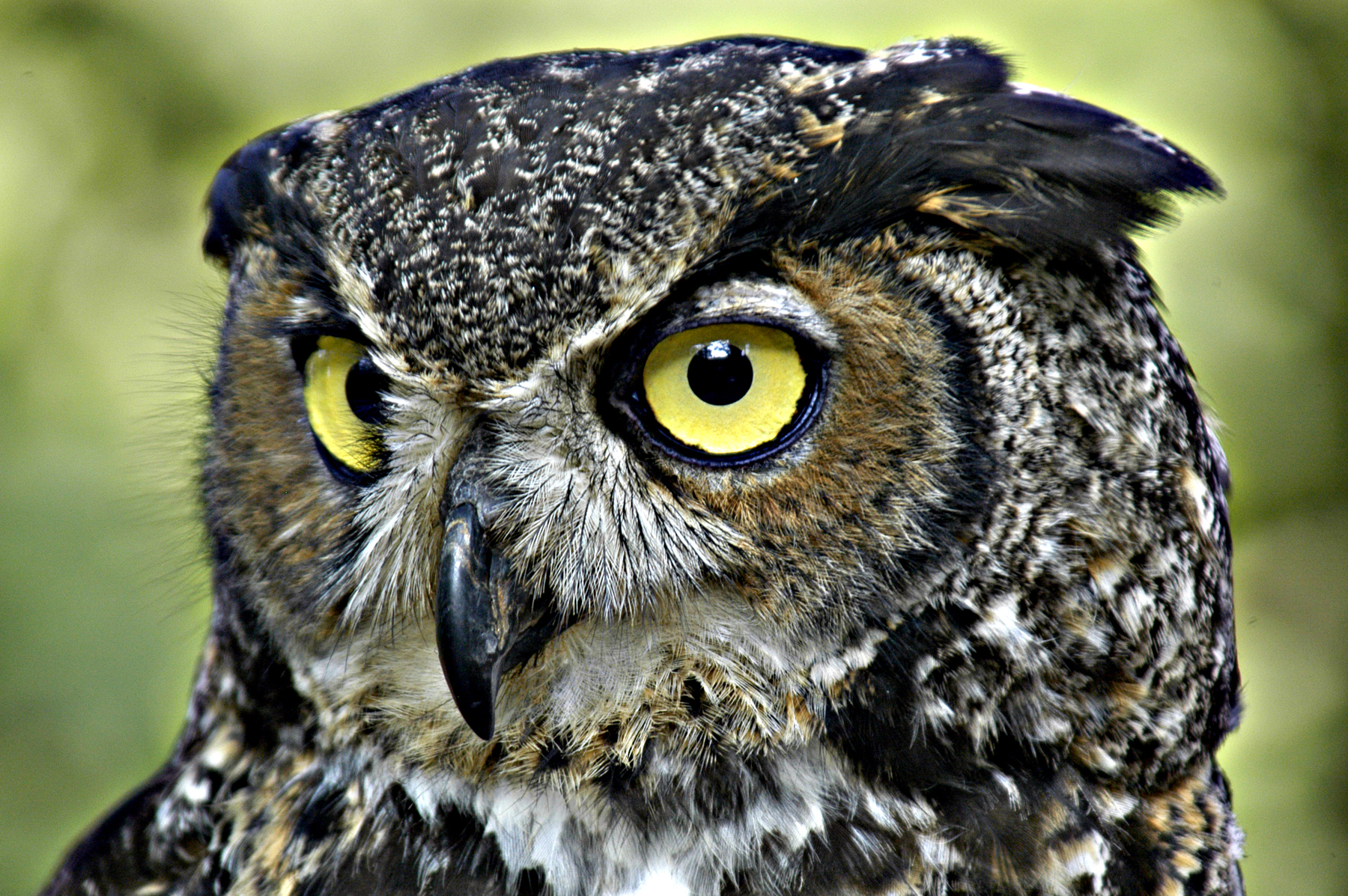 Taken by Peter Manidis. 3-4 Year old Great horned owl, taken in Balsam Mountains, North Carolina. Bird is currently in rehabilitation after sustaining a wing injury from colliding with a car.